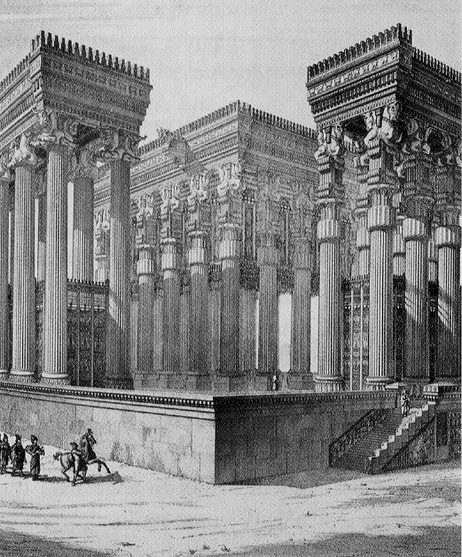 Persepolis